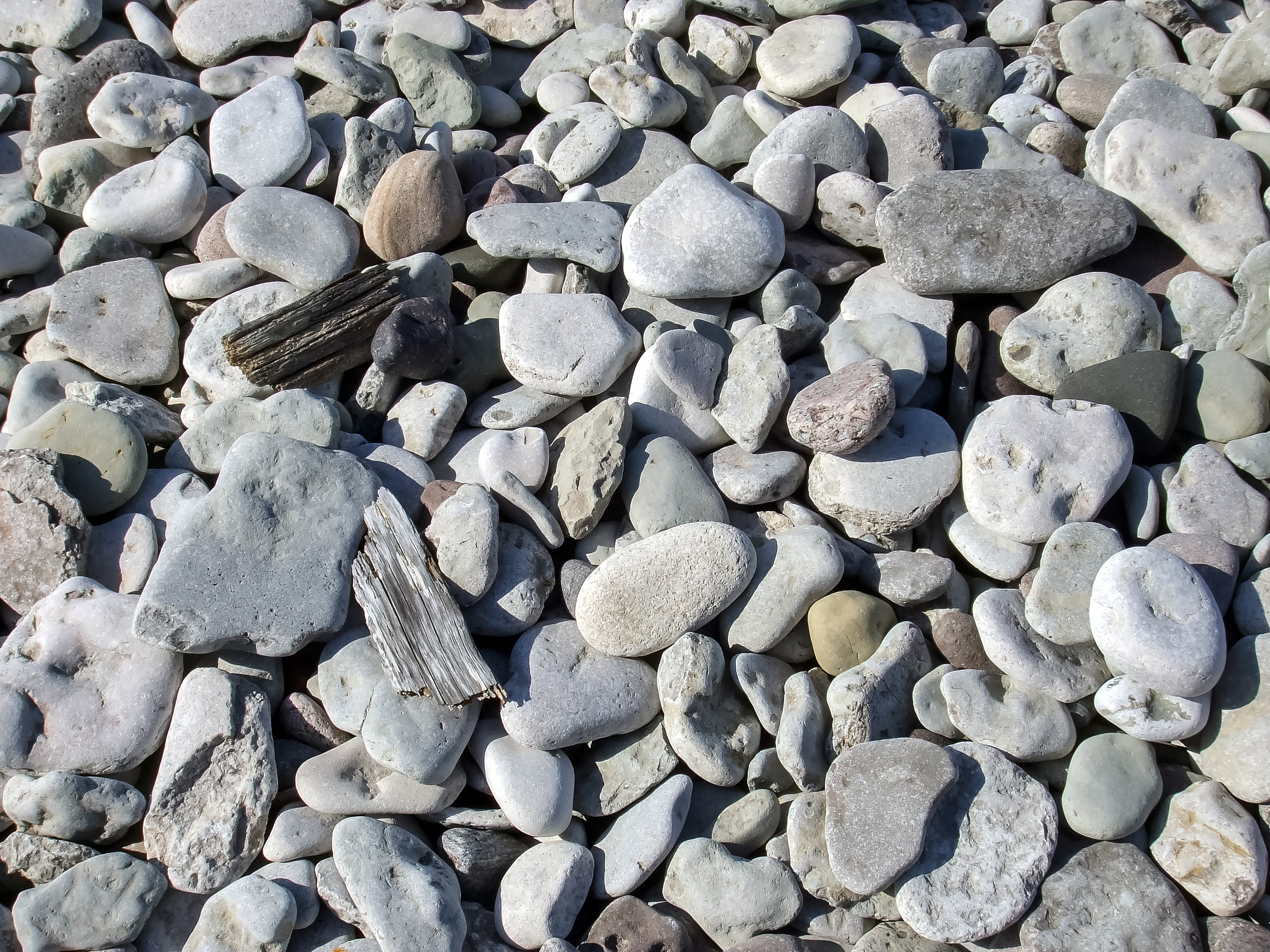 Lime stone pebbles on a beach in Gotland